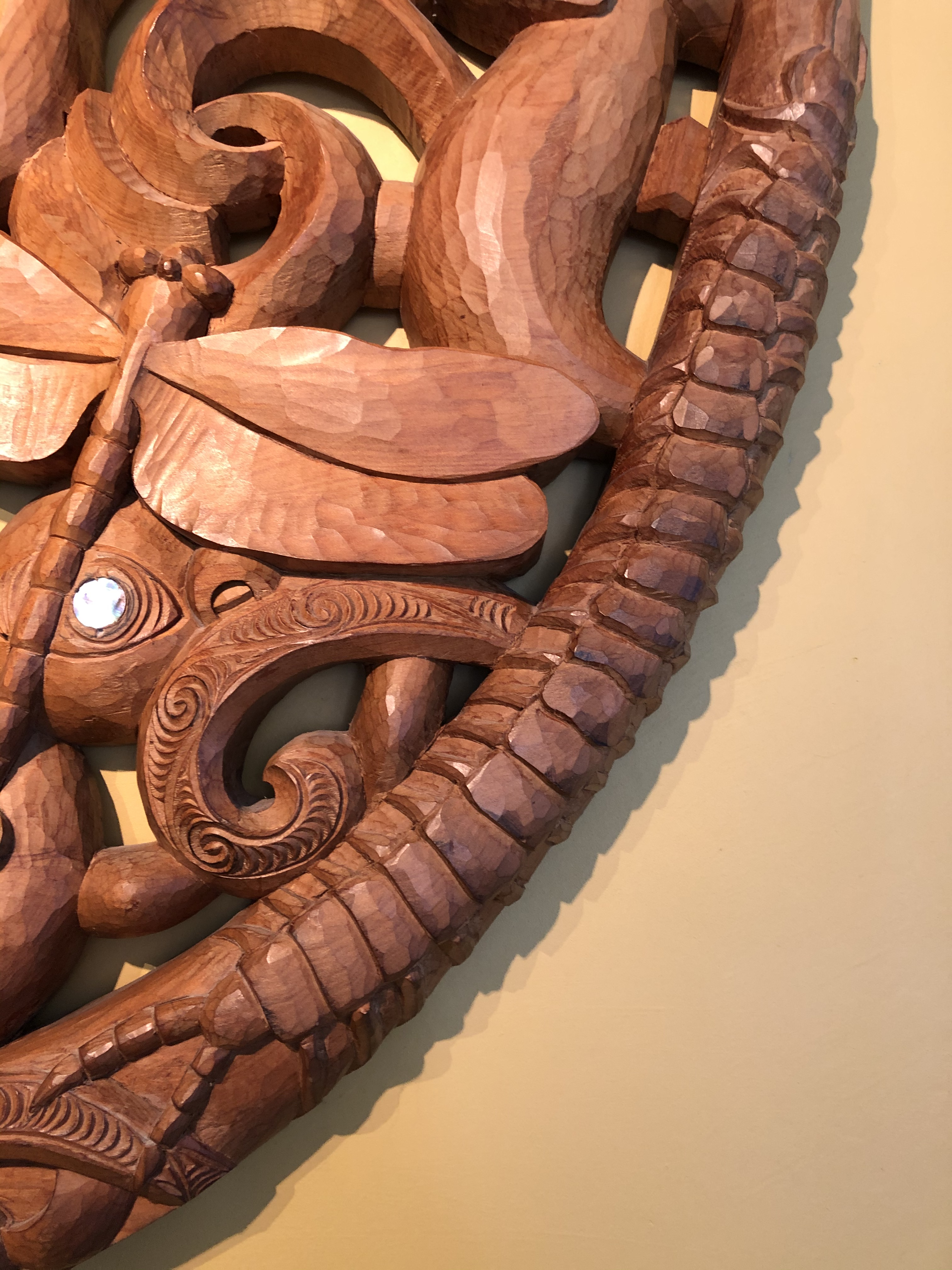 New Zealand Giant Centipede carved by Denis Conway onto a Maori pare, on display at the New Zealand Arthropod Collection at Landcare Research, Auckland.